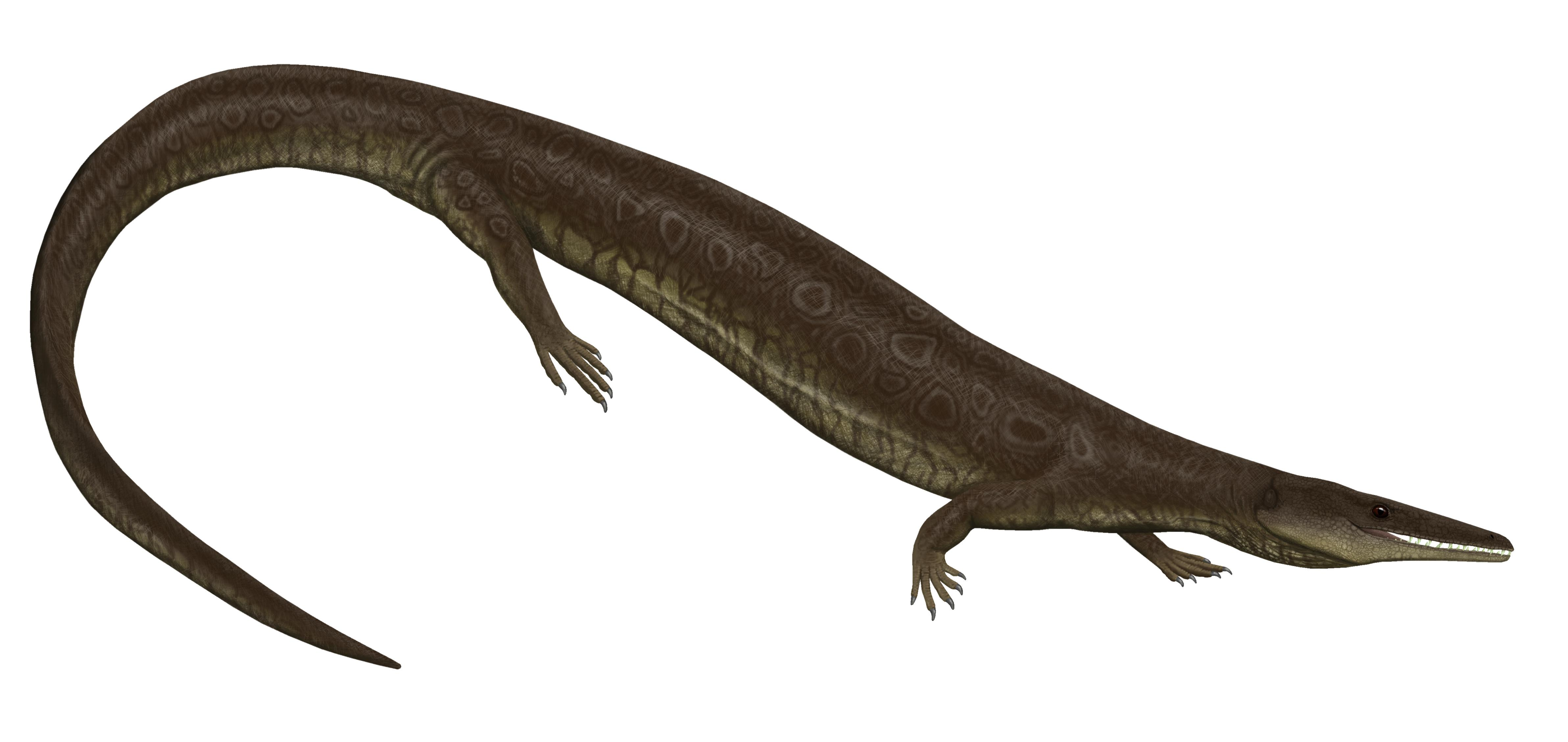 Life restoration of Aigialosaurus dalmaticus. Based on figures 5 and 7 of "Aigialosaurs: Mid-Cretaceous varanoid lizards" by Robert L. Carroll and Michael Debraga. Journal of Vertebrate Paleontology 12 (1).